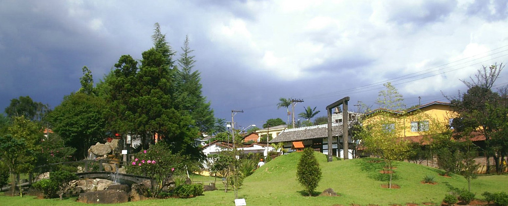 Japanese-like garden in Cotia, São Paulo, Brazil. Picture taken by me Gabriel Fernandes. Another version can be found at this page.